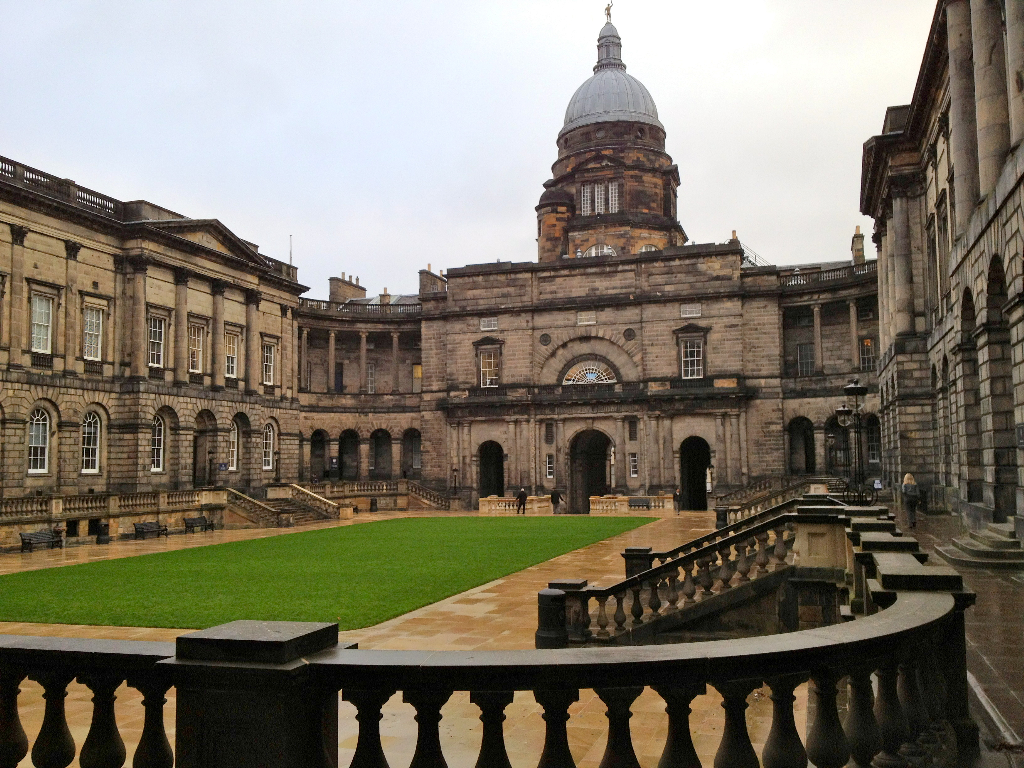 Old College, University of Edinburgh, UK